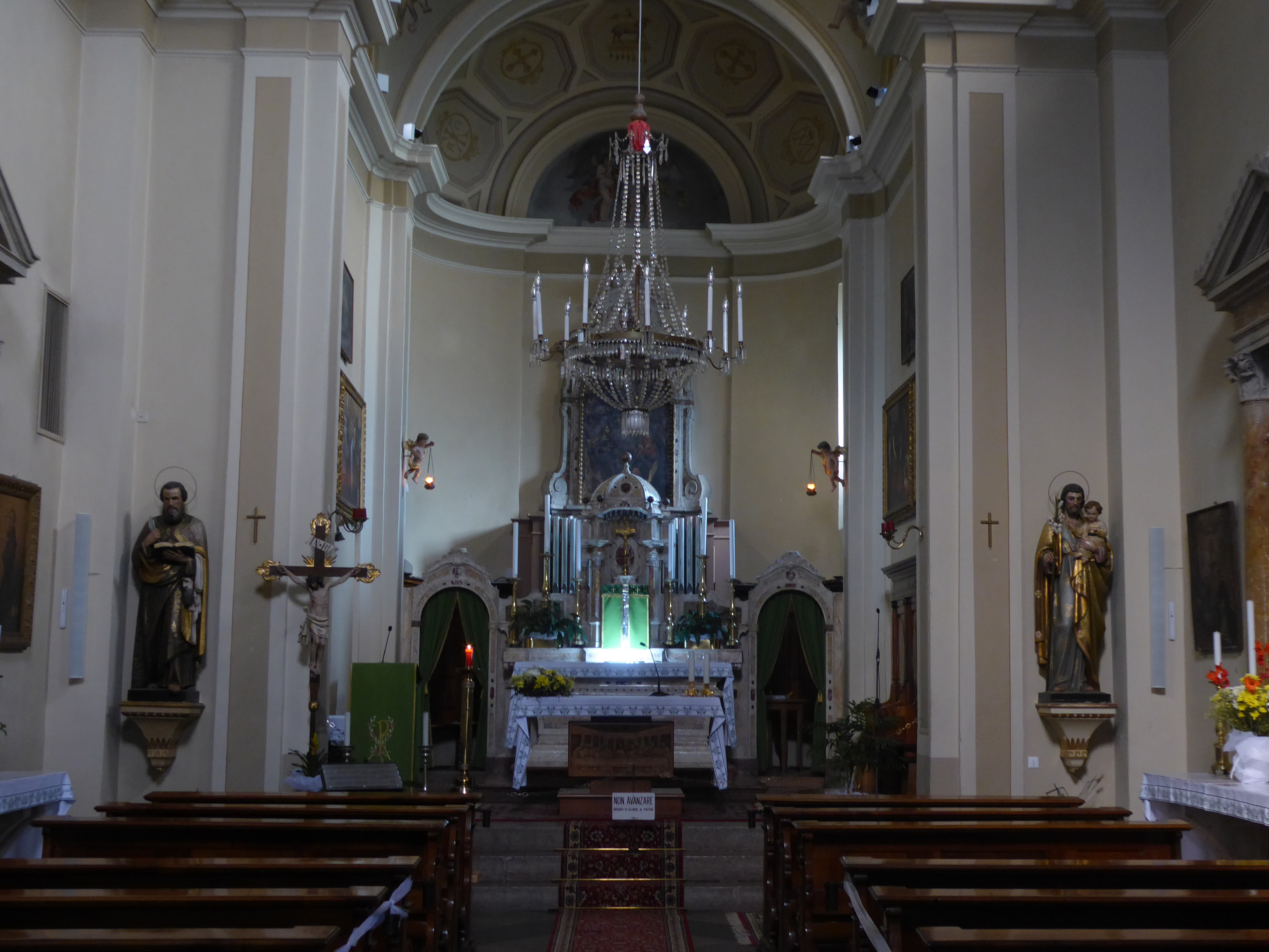 Fraveggio (Vallelaghi, Trentino, Italy), Saint Bartholomew church - Interior